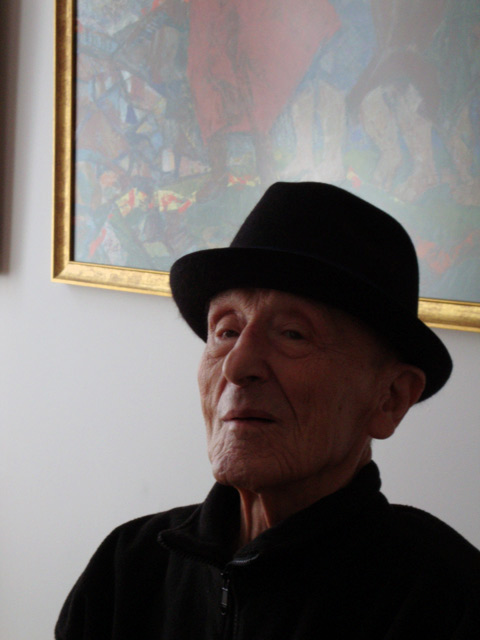 Béla Abodi Nagy is one of the most universal representatives of modern Hungarian and Romanian fine arts. He is a typically Hungarian and at the same time, a distinctively Transylvanian artist. He is a highly qualified, conscious artist, but at the same time a sensitive, true colourist, “a painter of the soul”. His marvellous artwork bridges over several artistic periods and expressive systems of forms, though it constitutes a distinct entity: Abodi’s dominant artistic character can be immediately traced in his diverse and always renewing oeuvre. He is a daring experimentalist, a persistent seeker who never strains after visual artifices or unnatural stylistic unity for his own sake. Abodi is the archetype of a professional and intellectual creator who is in possession of a complete range of professional tools and who is endowed with superior knowledge.